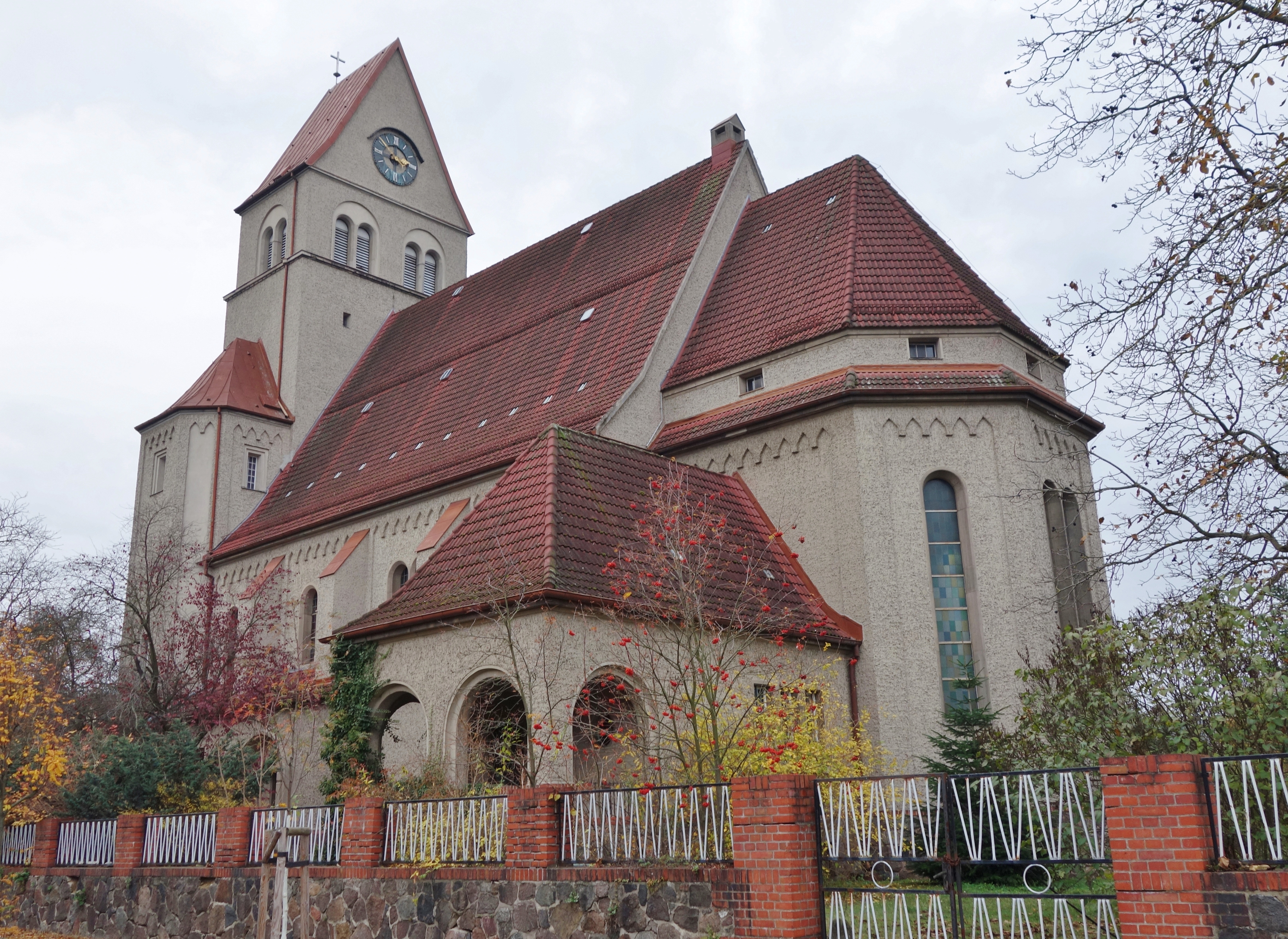 Eastern view of catholic St.Lawrence church in Wriezen municipality, Märkisch-Oderland district, Brandenburg state, Germany